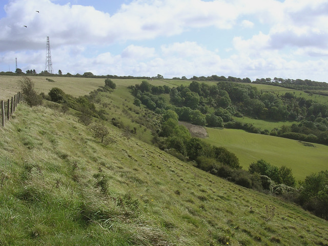 Bulbarrow Hill and Balmers Coombe Bottom. Looking west from the footpath to Rawlsbury Camp, this is the view of Bulbarrow Hill and its MOD radio masts which are a landmark for many miles around.